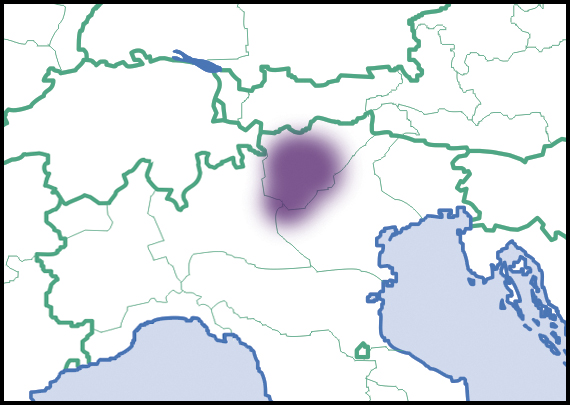 Vitrinobrachium tridentinum Forcart, 1956. Distribution in Europe, scientific state of knowledge of 2012. Source description in English. Light colour indicated rare occurrences or regions where the species could eventually be expected to occur. Dark colour indicated relatively reliable occurrences, as well as regions where the species was expected to occur, and where the species was not known to be extremely rare. Dark colour indications were not necessarily based on published records. Species summary in AnimalBase